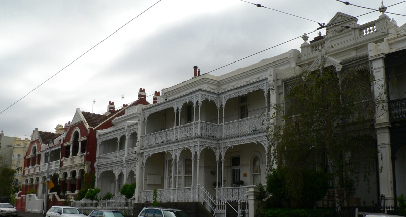 Terrace Homes in Park Street South Yarra